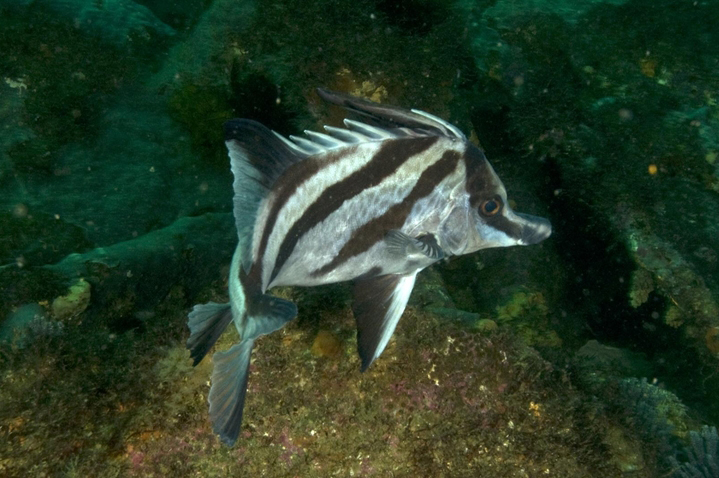 Longsnout Boarfish, Pentaceropsis recurvirostris.